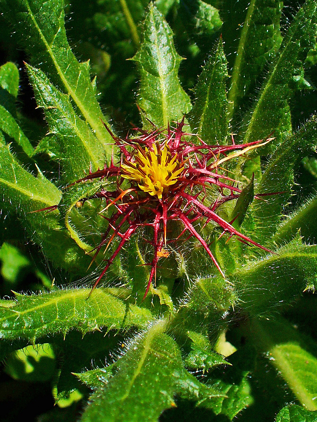 Cnicus benedictus, Asteraceae, Blessed Thistle, Holy Thistle, Spotted Thistle, Inflorescence. The fresh aerial parts of blooming plant are used in homeopathy as remedy: Carduus benedictus (Card-b.)